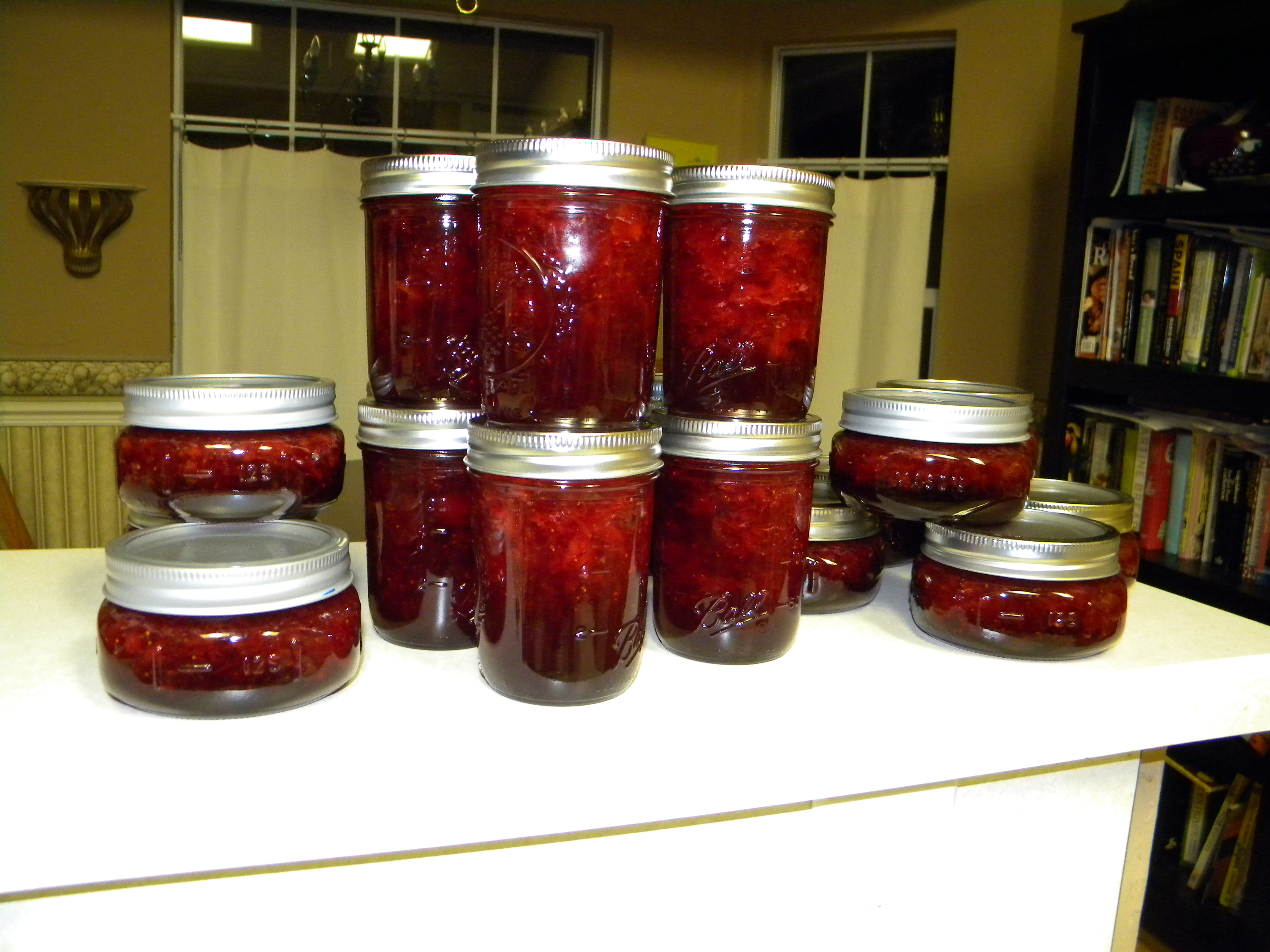 Jam is made using varied amounts of gelling sugar. The strawberry jam pictured was made from one part fruit and one part sugar.